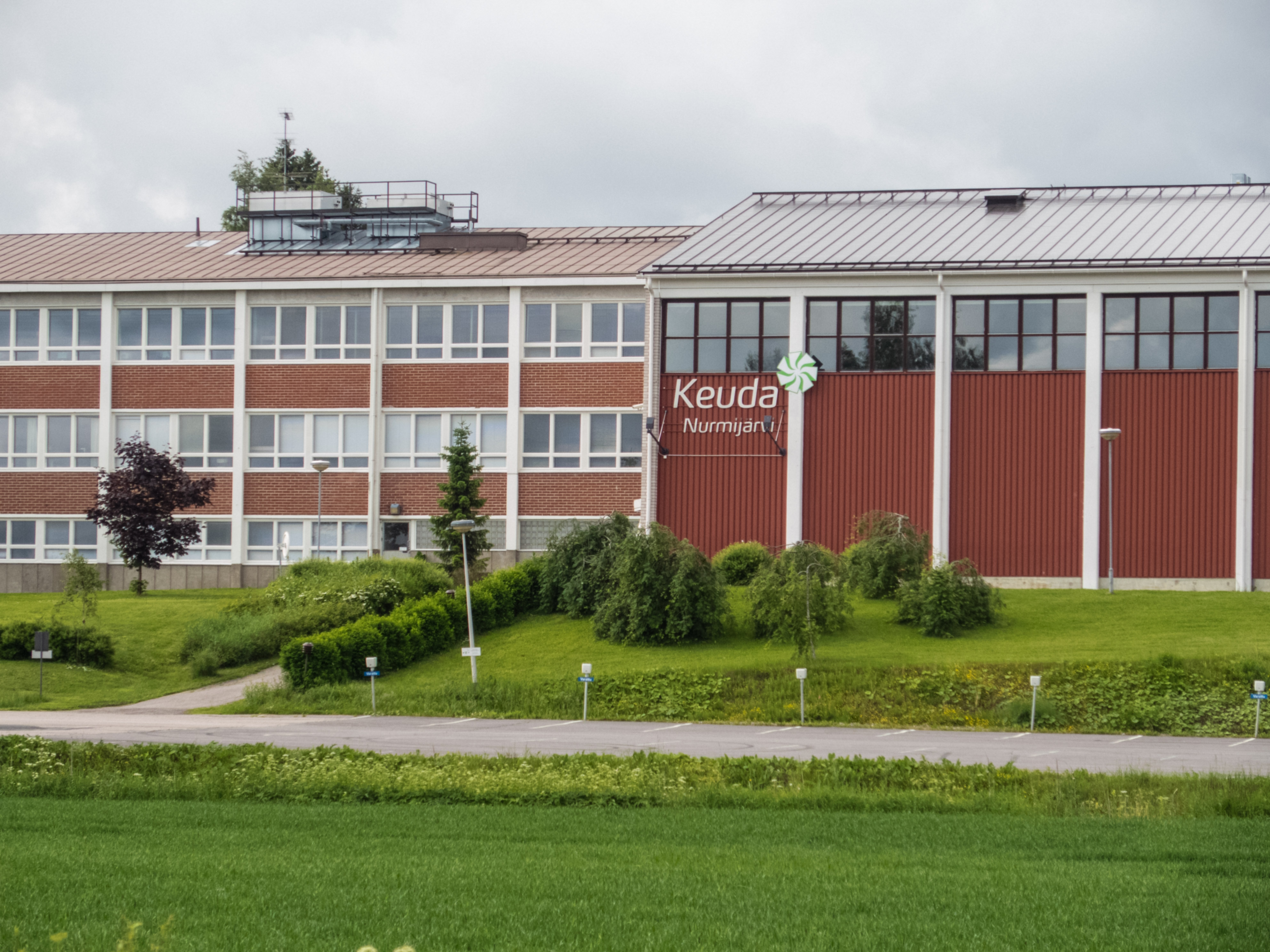 Keuda vocational school on Lopentie, Nurmijärvi, Finland.